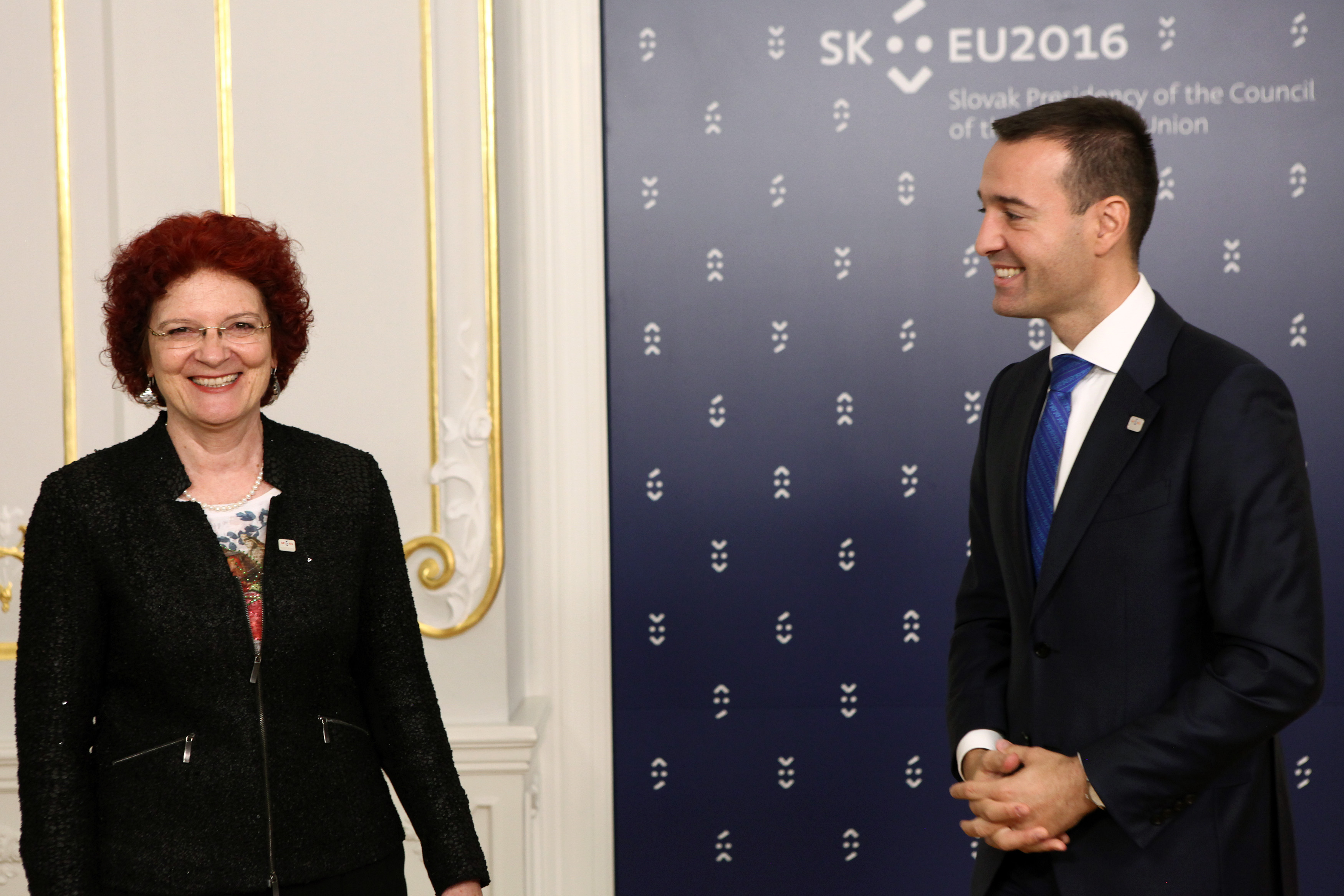 Slovakia, Mr. Tomas Drucker, Minister of Health (R), European Centre for Disease Prevention and Control (ECDC), Mrs. Andrea Ammon, Acting Director (L) Informal Meeting of Ministers for Health (Informal EPSCO/Health) Photo: Andrej Klizan